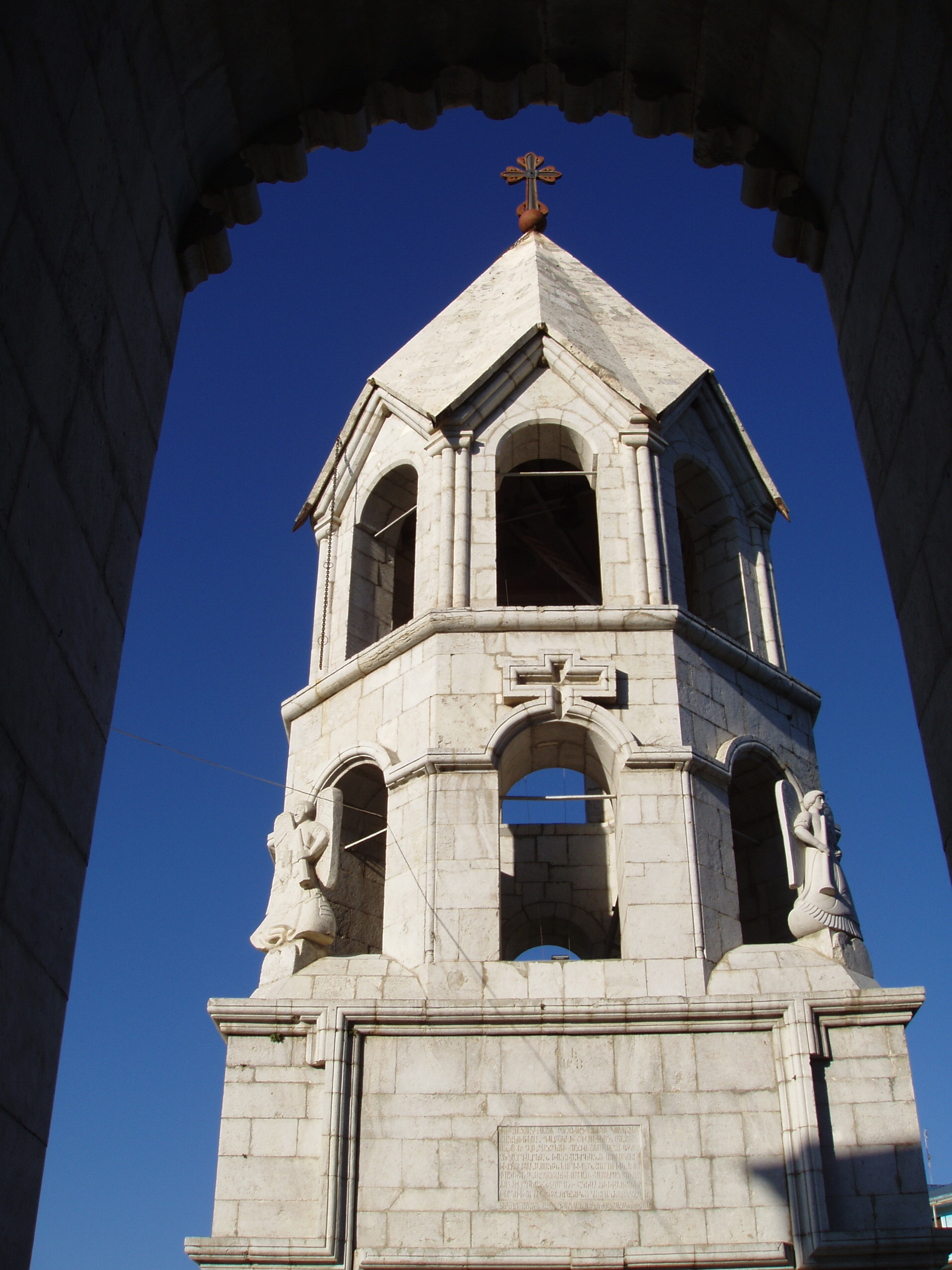 Shushi Ghazanchetsots Cathedral, the belfry.